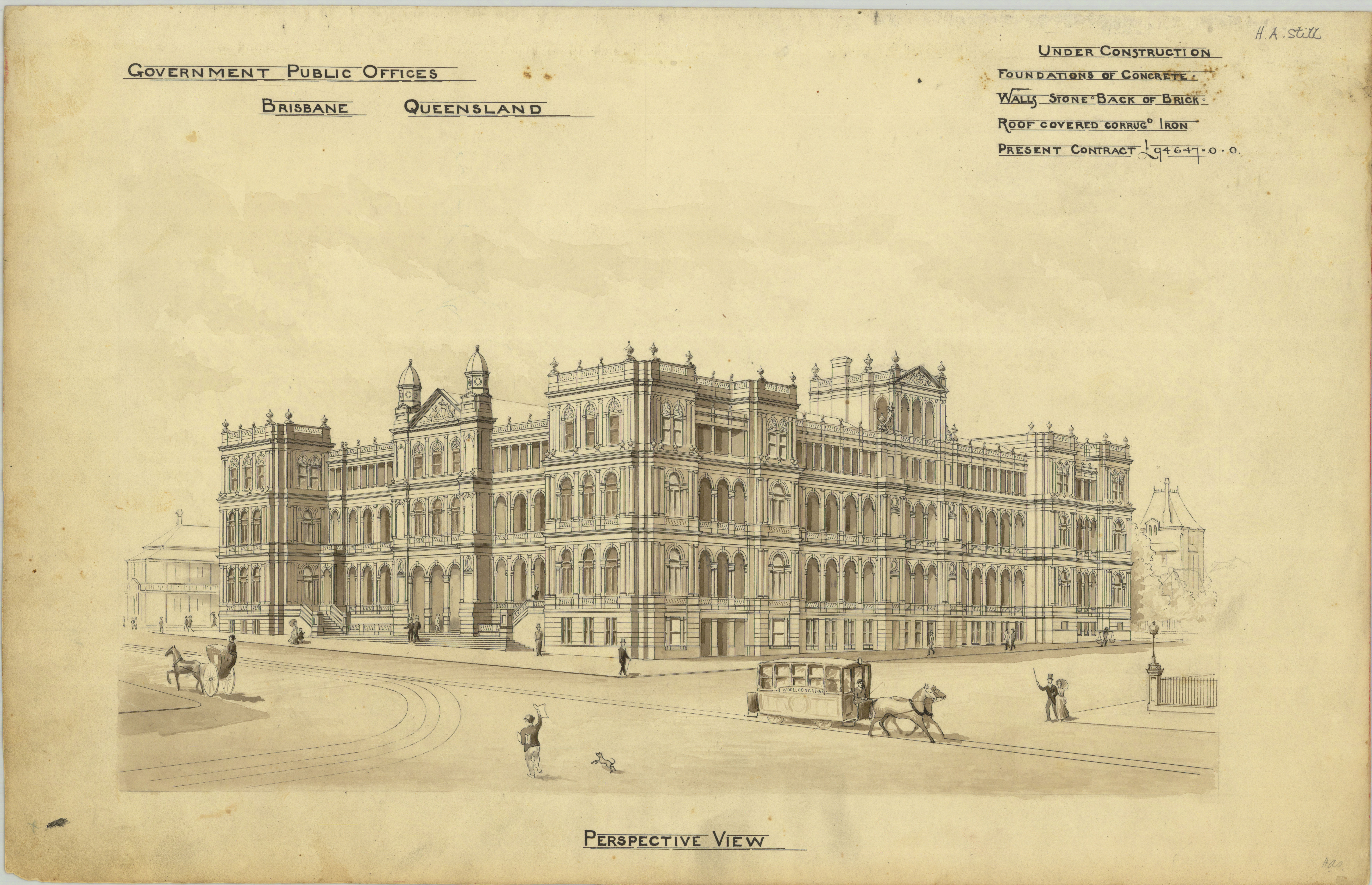 Perspective view of Government Public Offices, Brisbane (aka Treasury Building), circa 1888